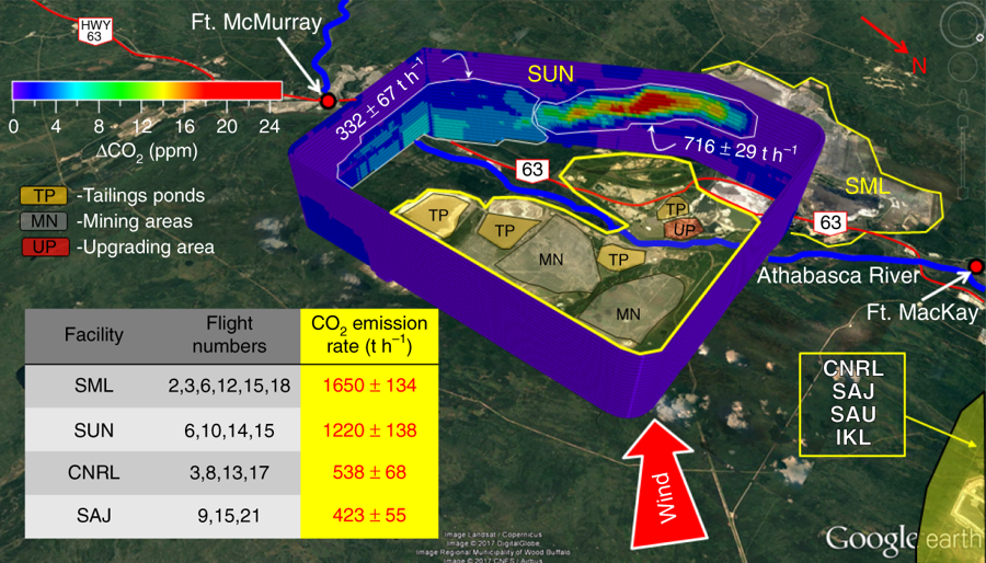 Original figure caption: Measured CO2 from flight 15 around the SUN facility [i.e. the Suncor open pit mines ‘Millennium’ and ‘Steepbank North’ and the associated upgrading plant]. Mass emission rates have been determined for this facility using the TERRA [i.e. Top–down Emissions Rate Retrieval Algorithm] algorithm, where elevated and surface emissions can be quantified separately. The mean hourly CO2 emission rates (t h−1) during all flights covering the four major surface mining operations in the oil sands are shown in the inset table. Uncertainties represent the standard error ( σ N ) {\displaystyle \left({\frac {\sigma }{\sqrt {N }\right)} for the multiple flights over a facility. Map data: Google, Image Landsat, CNES/Airbus, Digital Globe 2017. Source data for the inset table are provided in Supplementary Data 1.Additional notes: the measurements were conducted in 2013 meaning of the remaining abbreviations in the inset table: SML = Syncrude ‘Mildred Lake’, CNRL = Canadian National Resources Ltd ‘Horizon’, SAJ = Shell ‘Albian’ and ‘Jackpine’ (now part of CNRL); see also Athabasca oil sand mining map 2011.jpg.